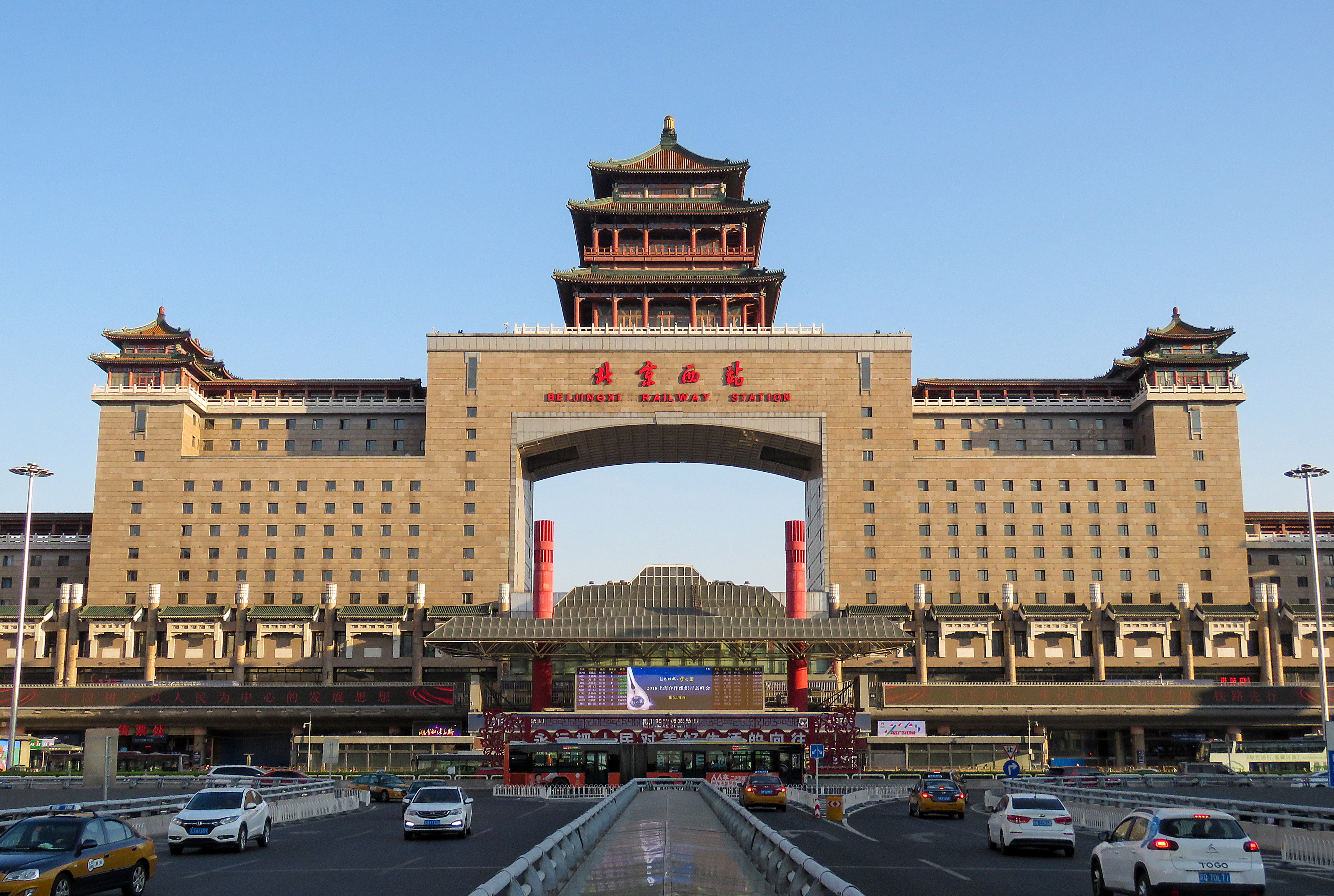 Profile again.